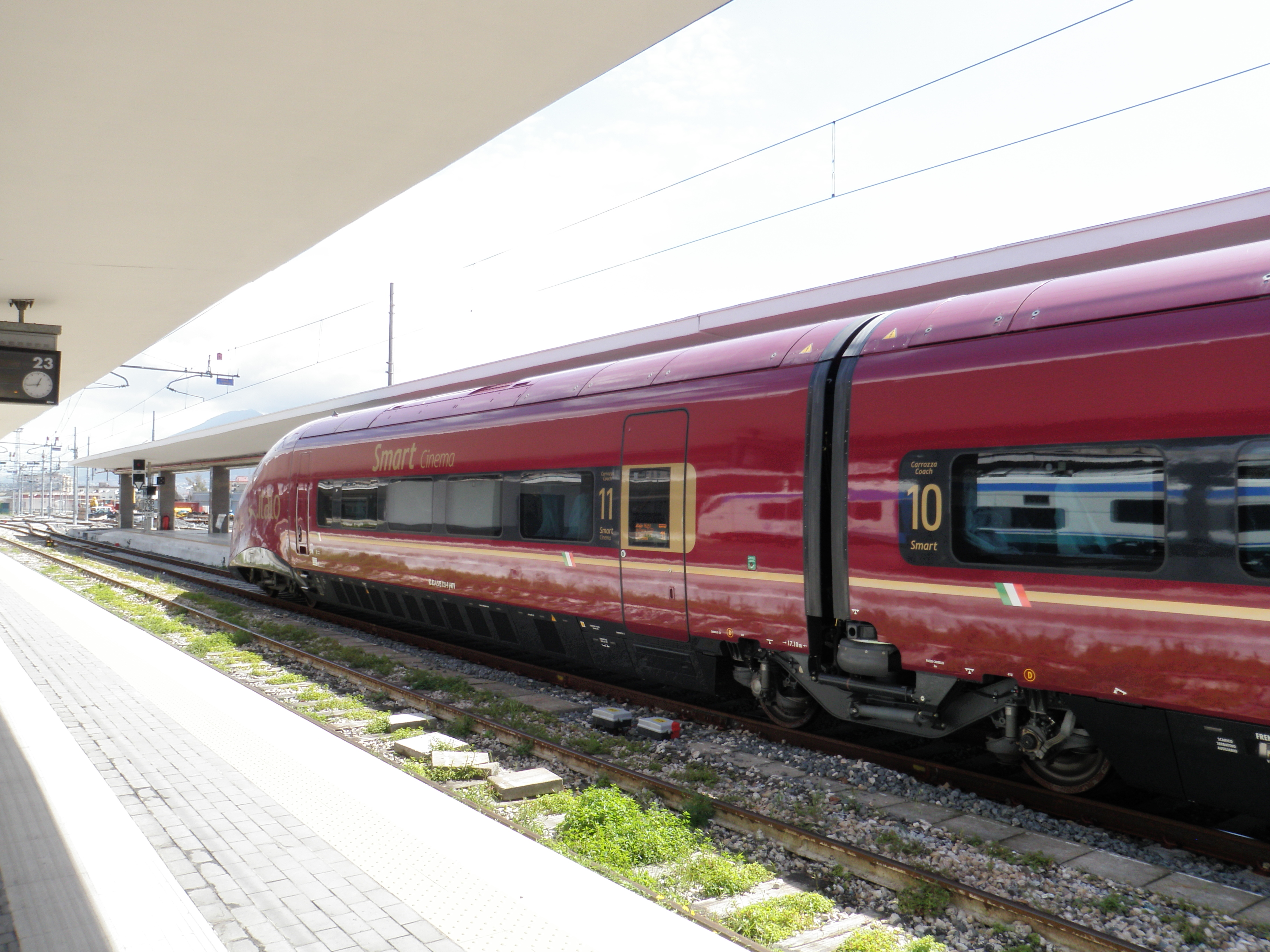 Alstom AGV .italo from NTV in Napoli Centrale railway station.